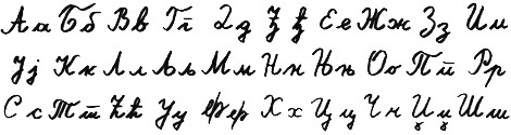 Serbian Cyrillic alphabet, written in cursive handwriting